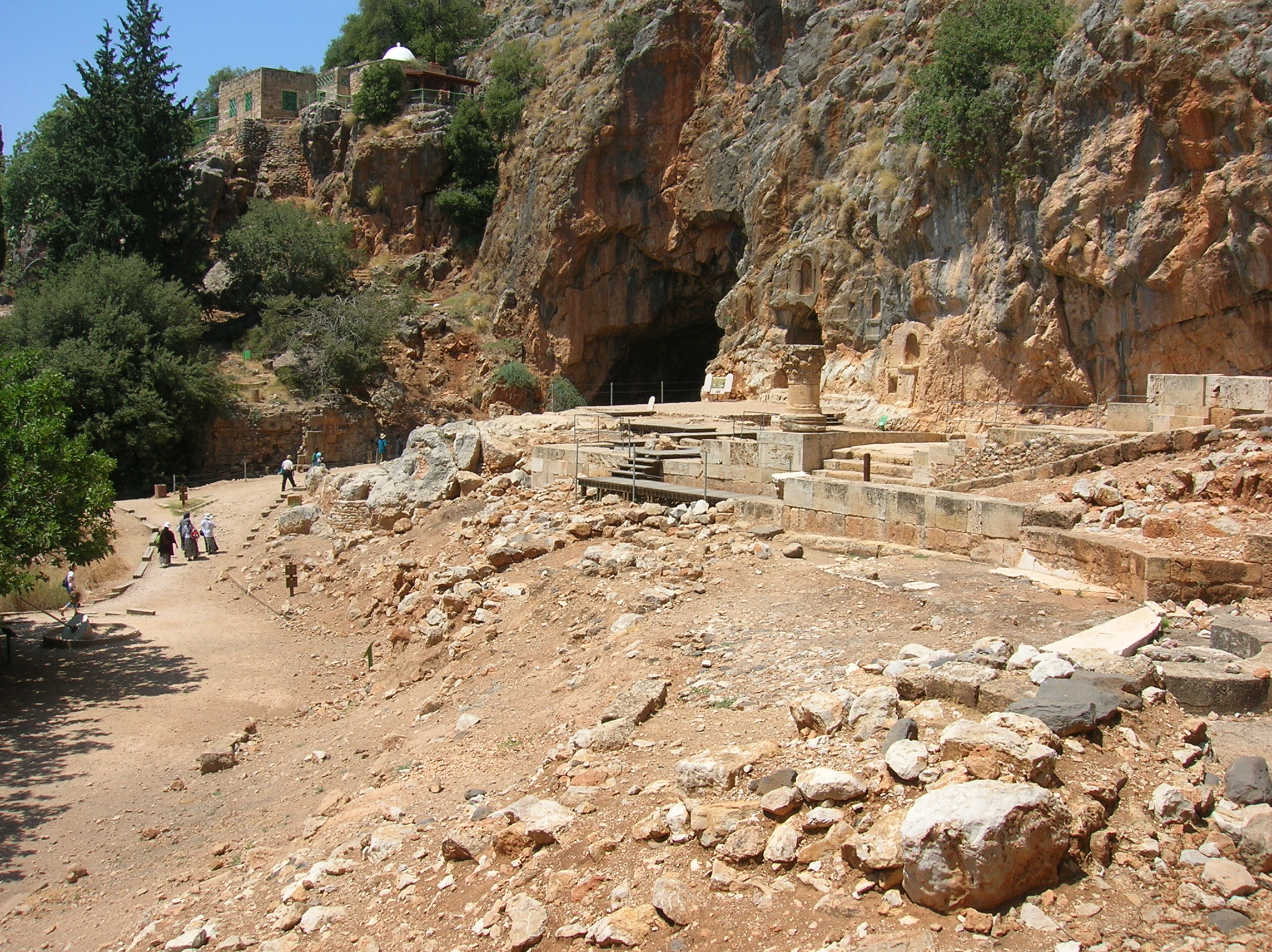 Piture taken by User:EdoM during august 2005 by a Nikon Camedia 4600